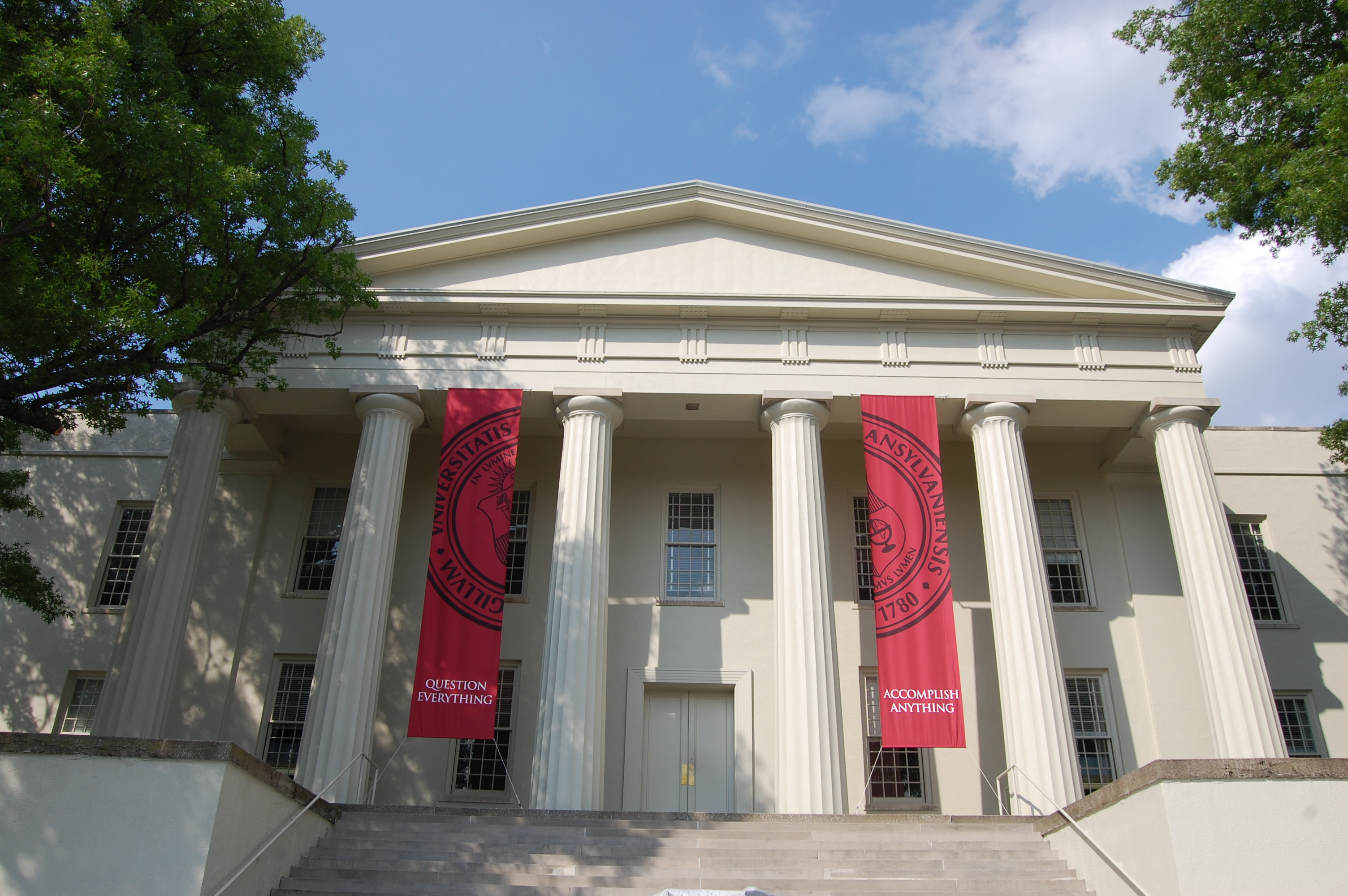 Old Morrison, at Transylvania University, decorated for the inauguration of President R. Owen Williams